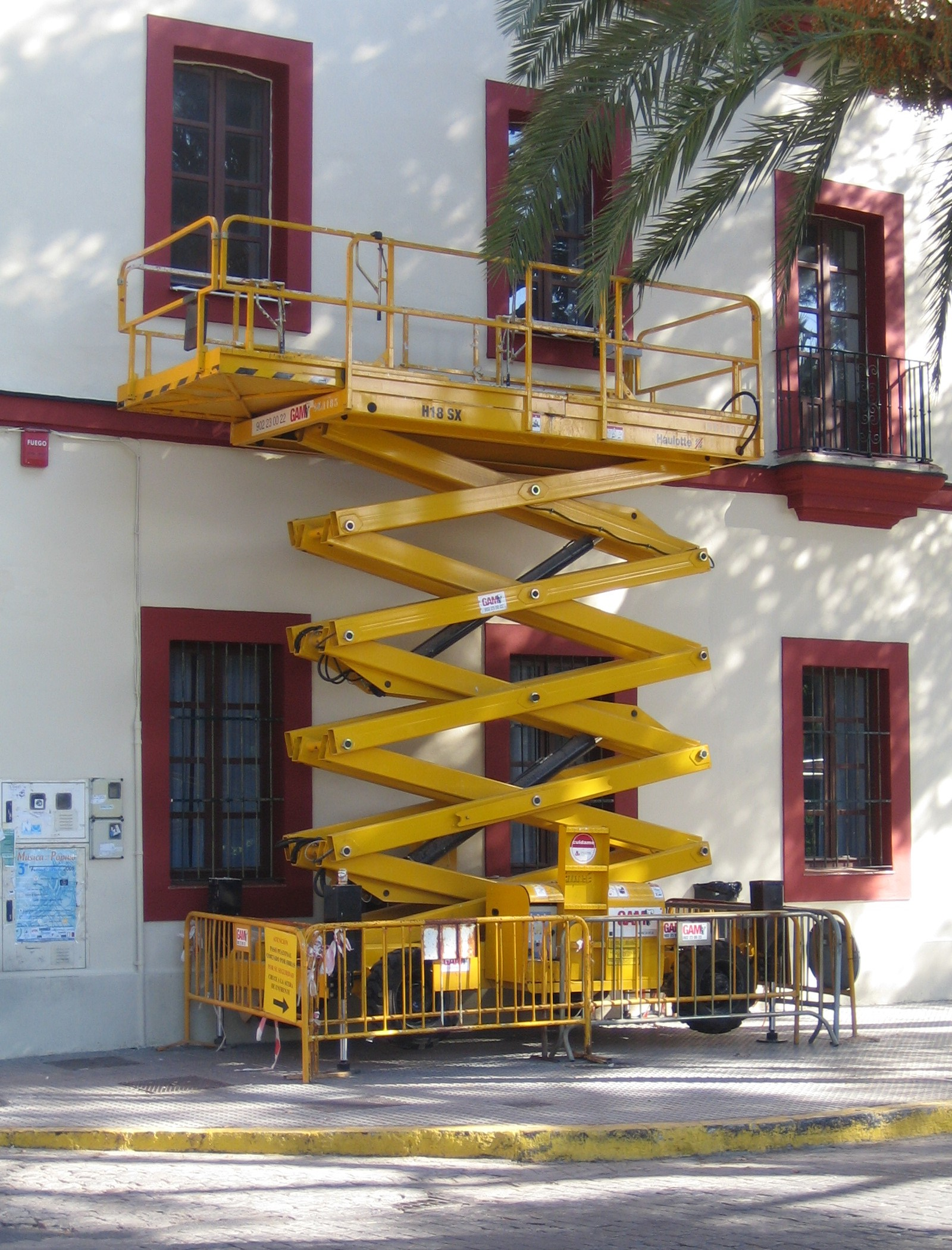 Scissor lift from the french manufacturer Haulotte (H18 SX) in Cádiz (Spain).